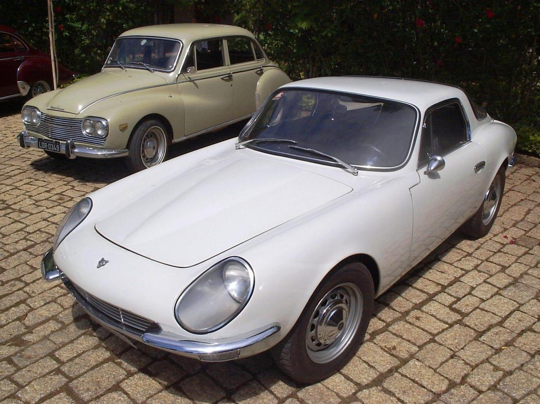 The first ever Puma model, still with DKW engine/chassis. Around 135 of these Brazilian sports cars were made from 1966 to 1967. In the background, a DKW Belcar